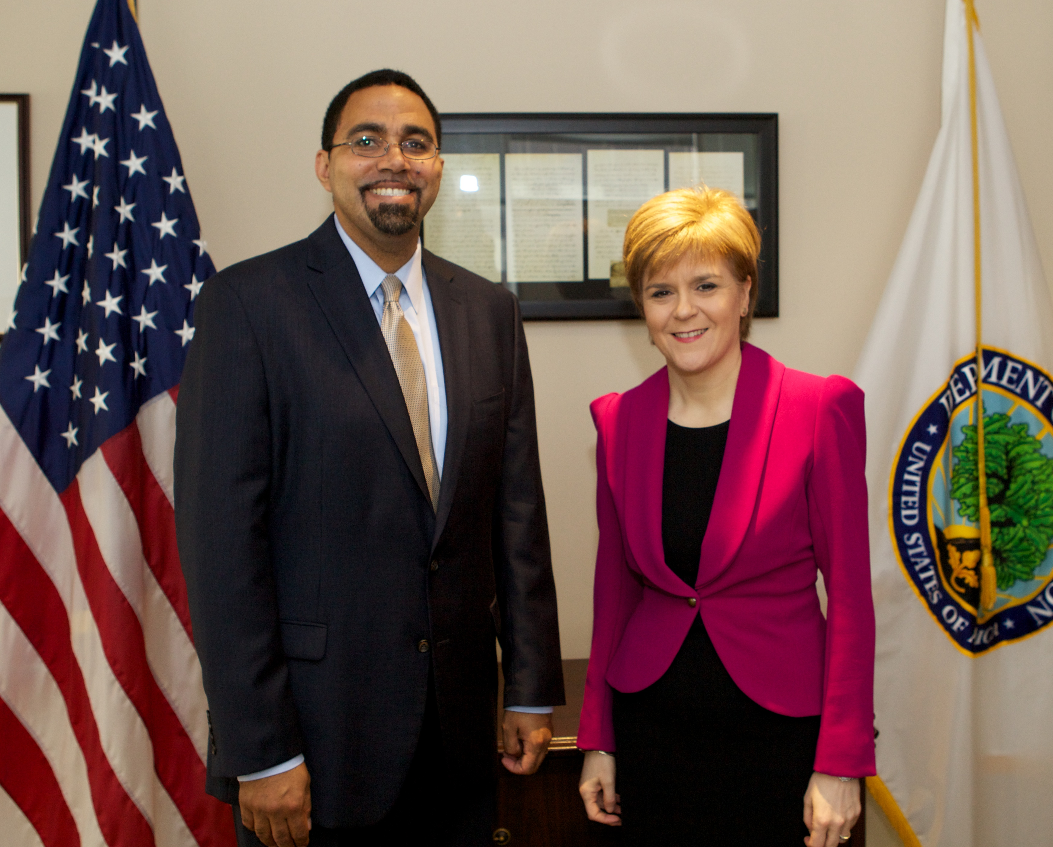 Deputy Secretary, John King with First Minister of Scotland, Nicola Sturgeon